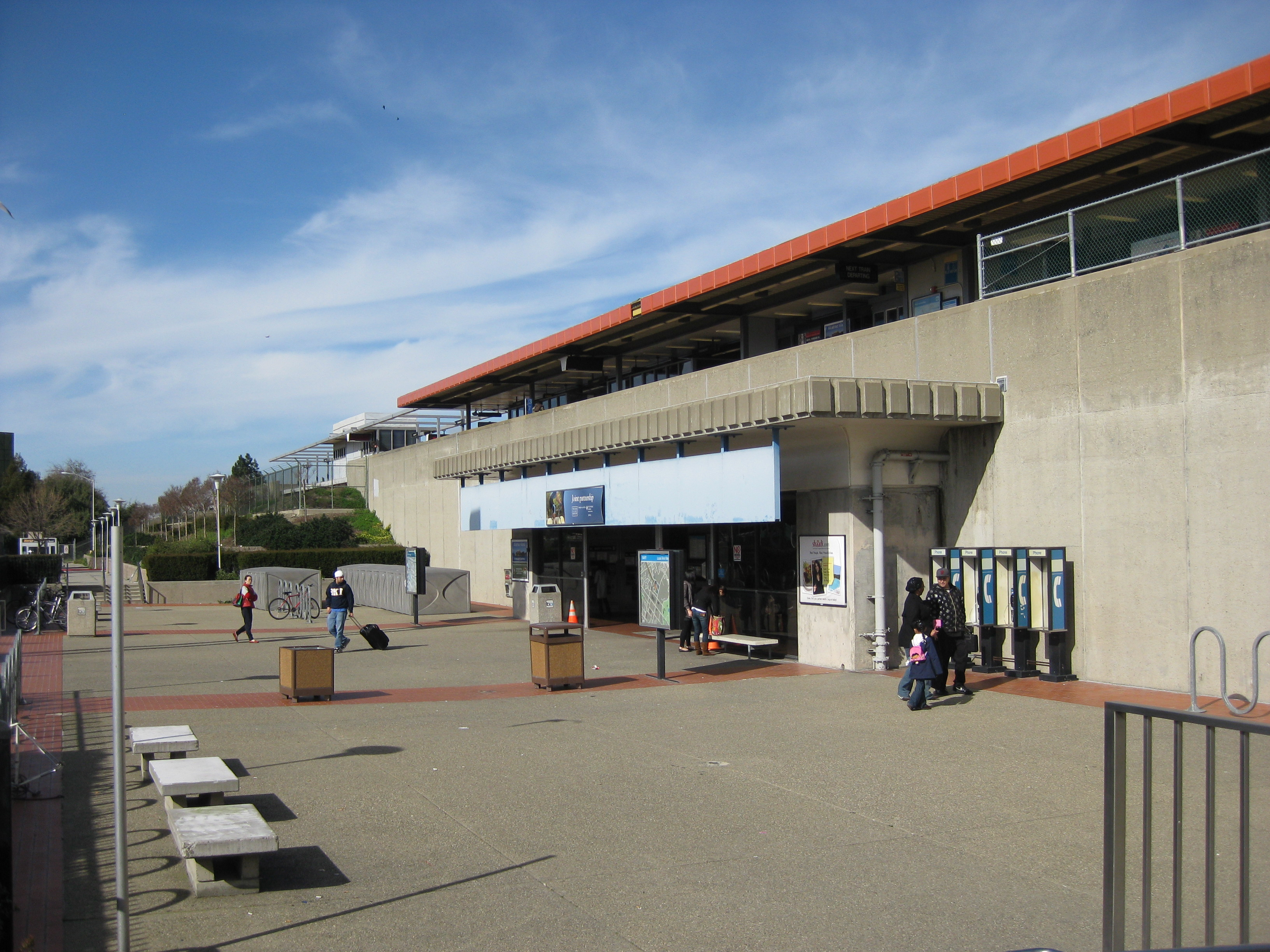 Entrance plaza at Fremont station in January 2010